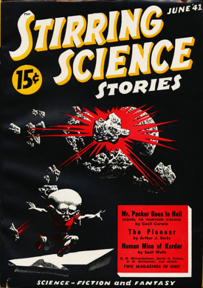 Cover of the June 1941 issue of Stirring Science Stories